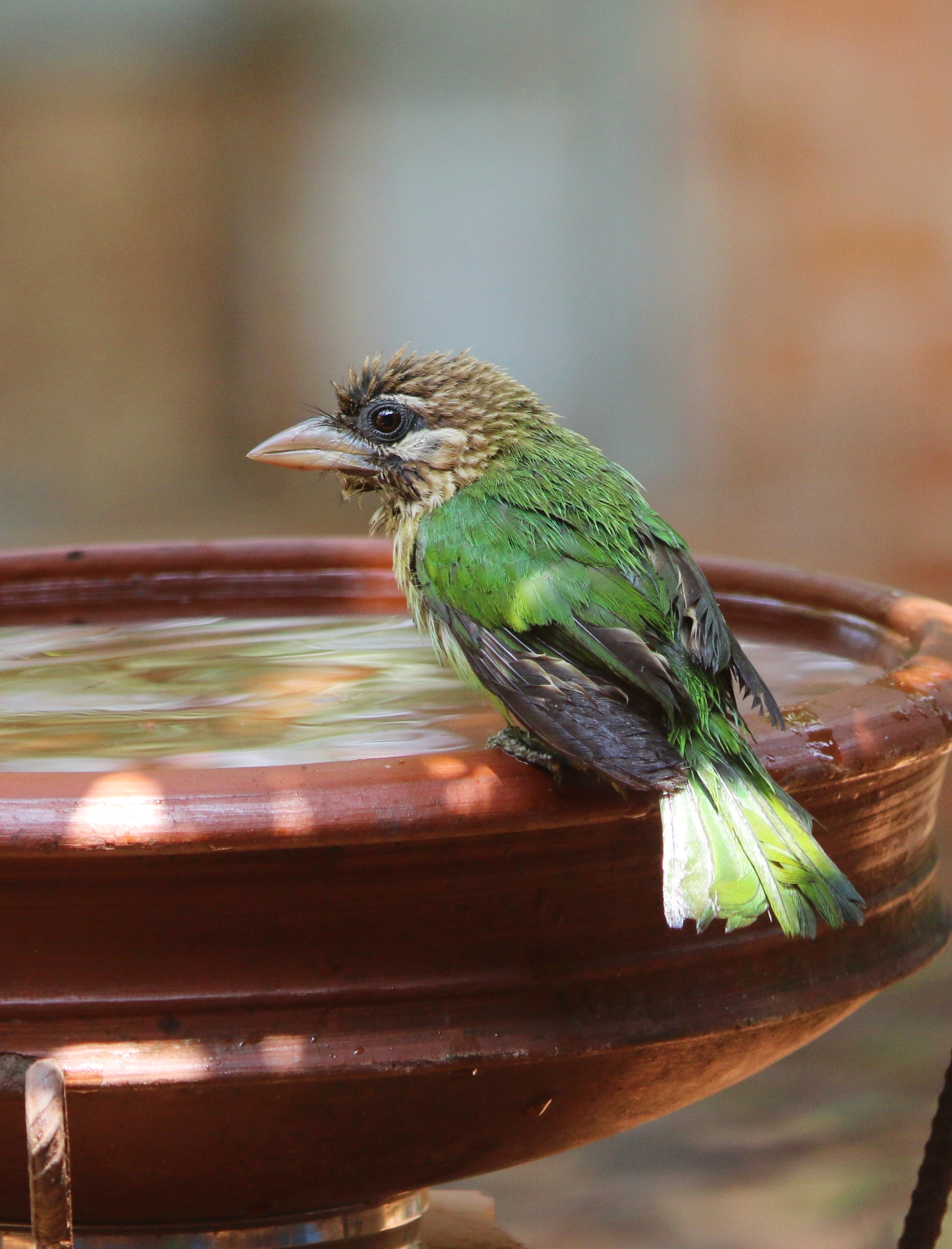 White cheeked barbet in bird bath